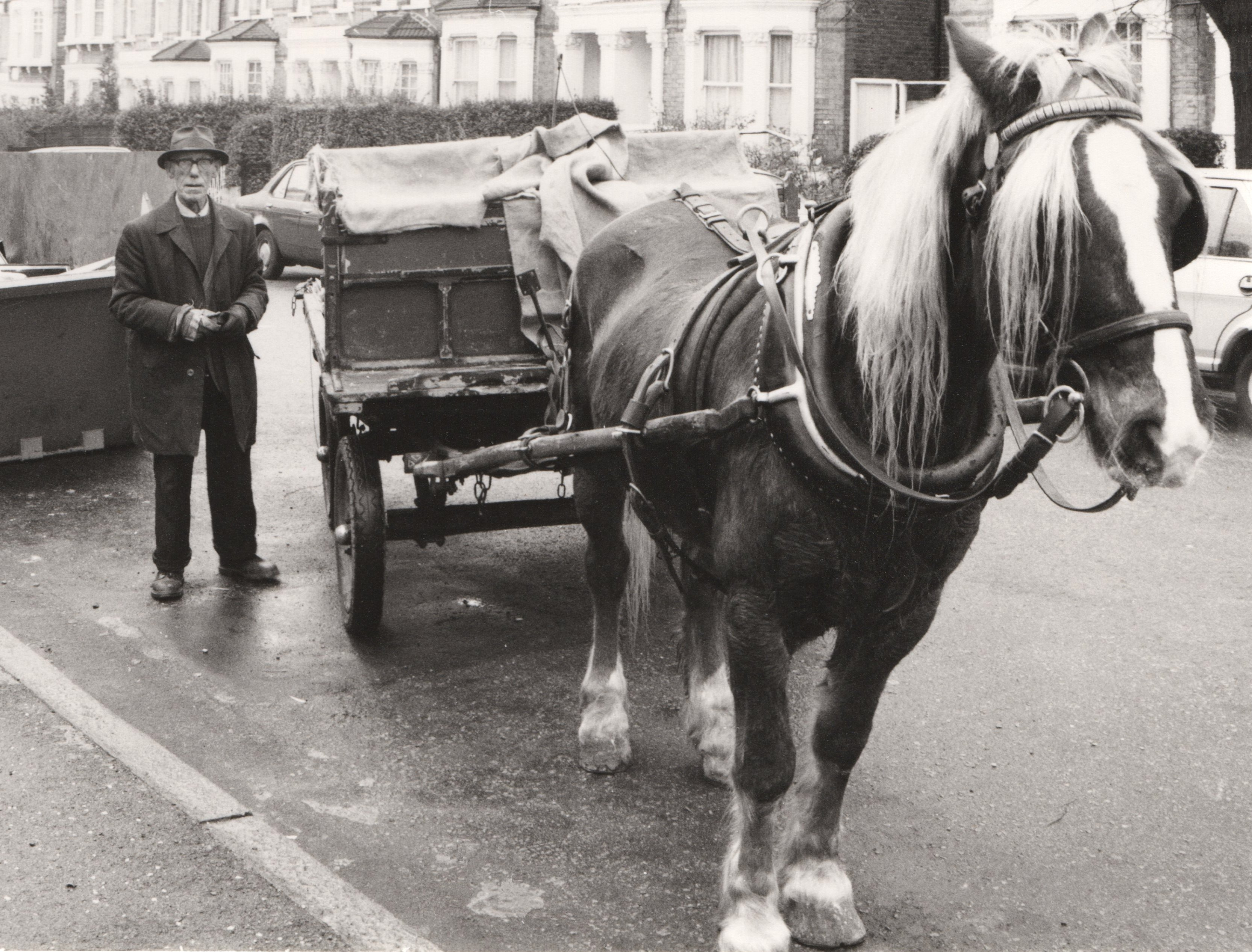 A rag-and-bone man with his horse and cart on the streets of Streatham, south-west London in 1985 (Tony Rees photograph)